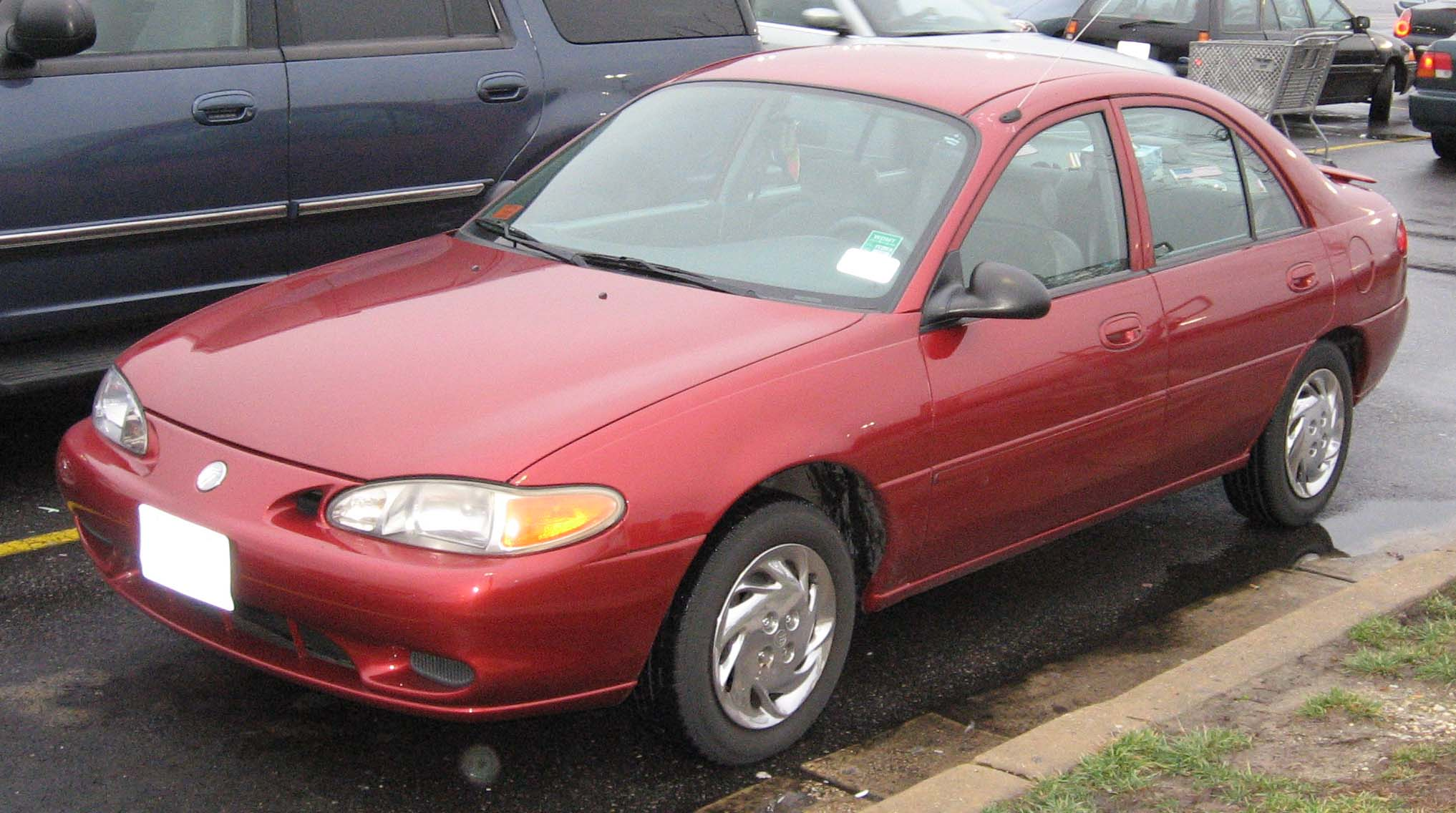 1997-1999 Mercury Tracer photographed in USA.